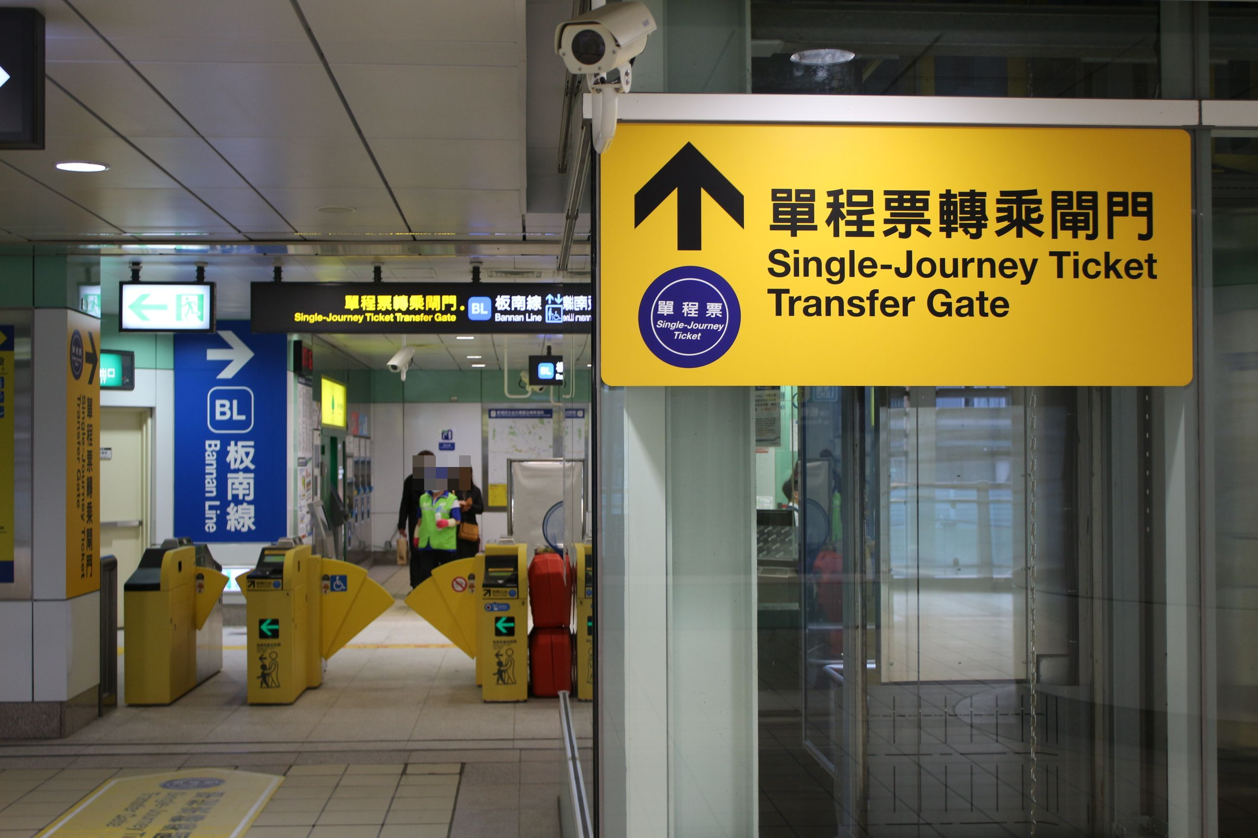 Taipei Metro Xinpu Minsheng Station transfer gate.